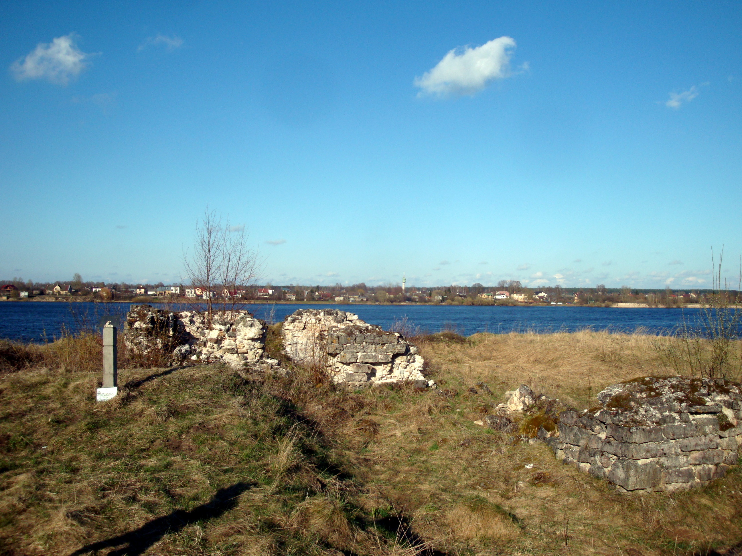 Ruins of Alt-Dole castle (AD 1226)